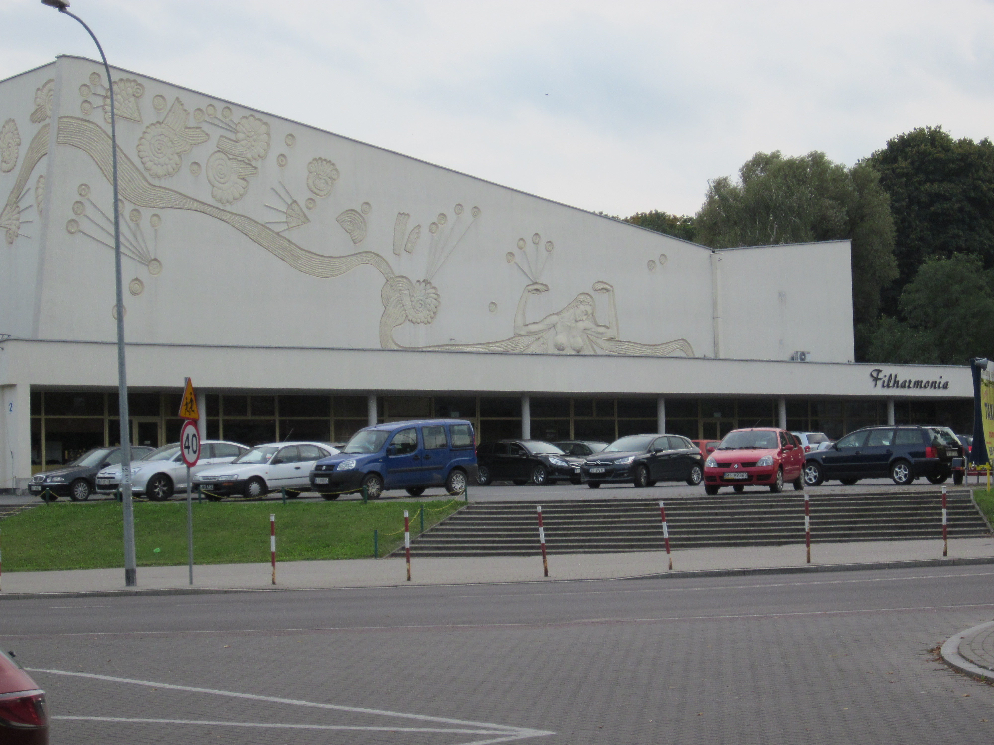 Białystok, 2 Podleśna street. Philharmonic Podlaska.